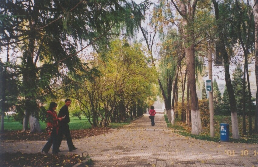 Xining People's Park 西宁人民公园 (Xining Renmin Park); Xining, Qinghai, People's Republic of China